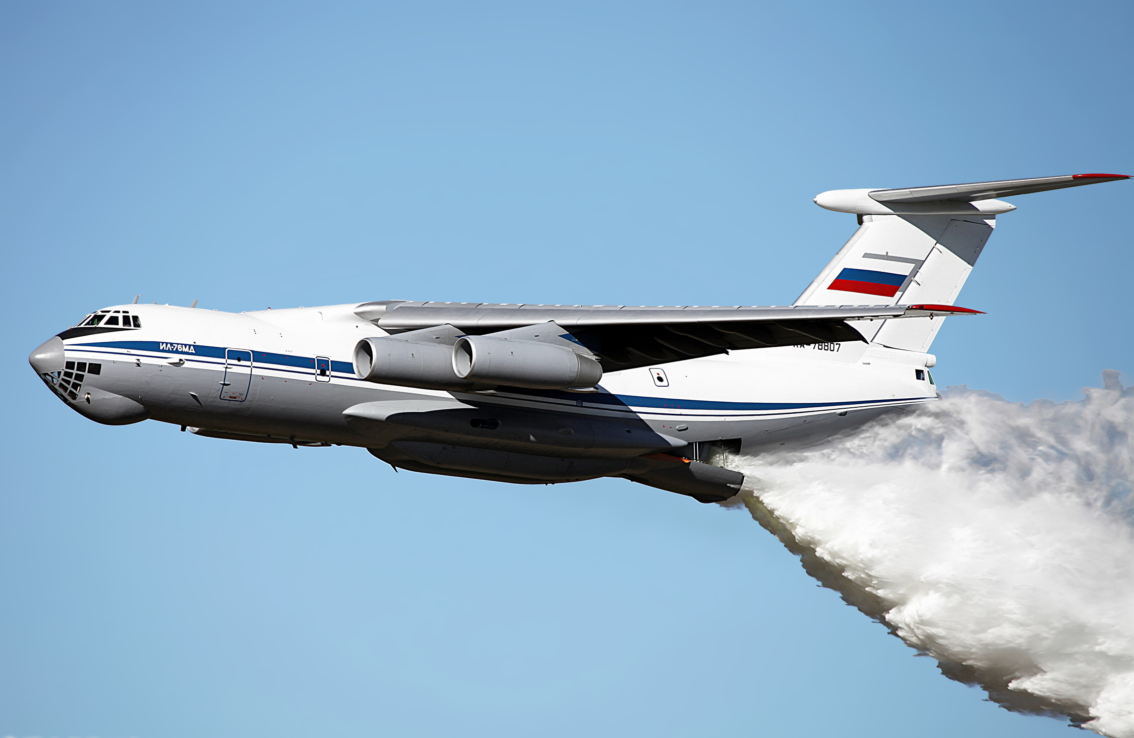 Before the competition IL-76MD dropped the water to the training range